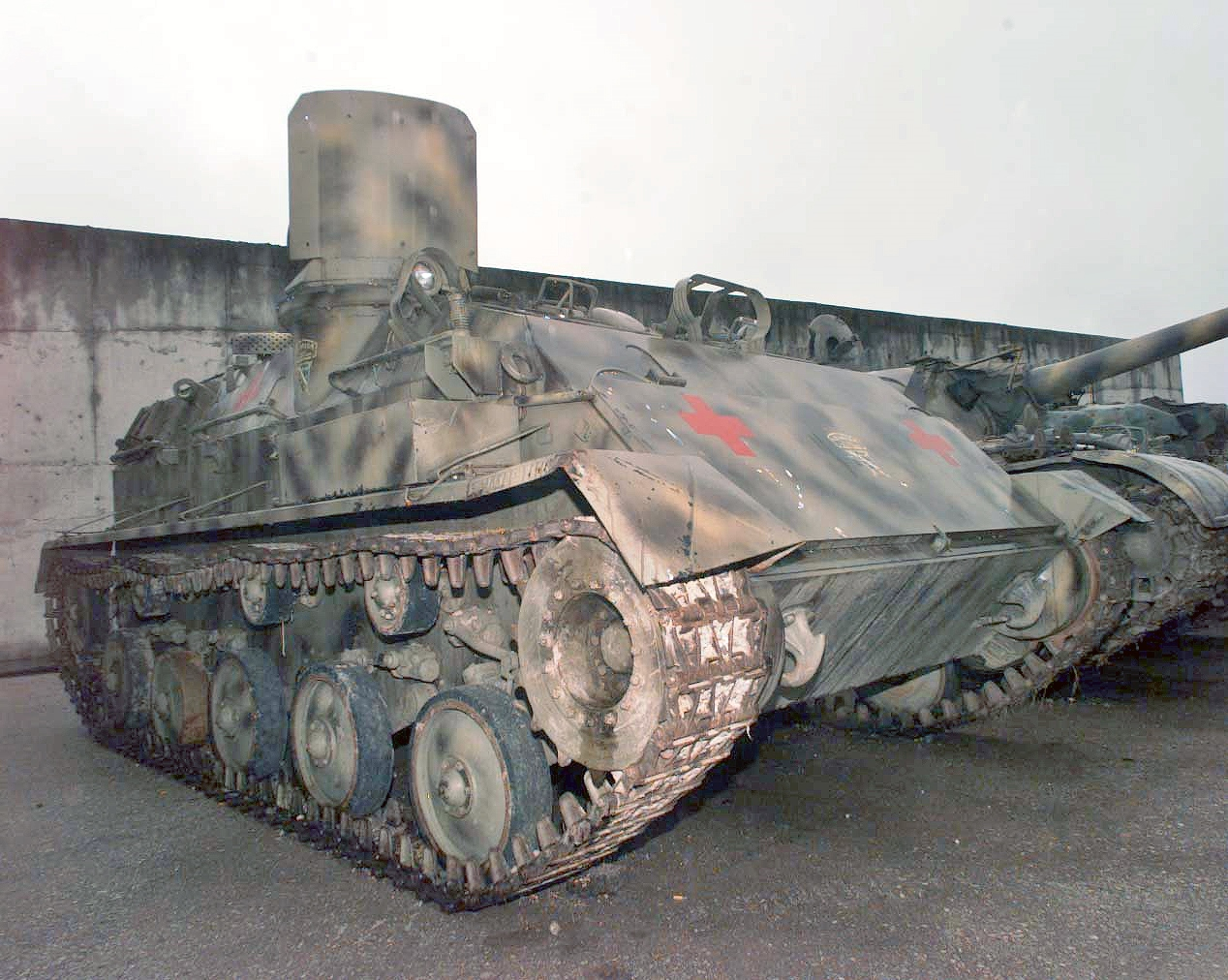 This is a close-up view of a BVP-60 Armored Personnel Carrier belonging to the 28th BIH (Bosnia-Herzegovina) Division, 281st Brigade, 1st Tank Battalion, stationed in Visca, Bosnia.